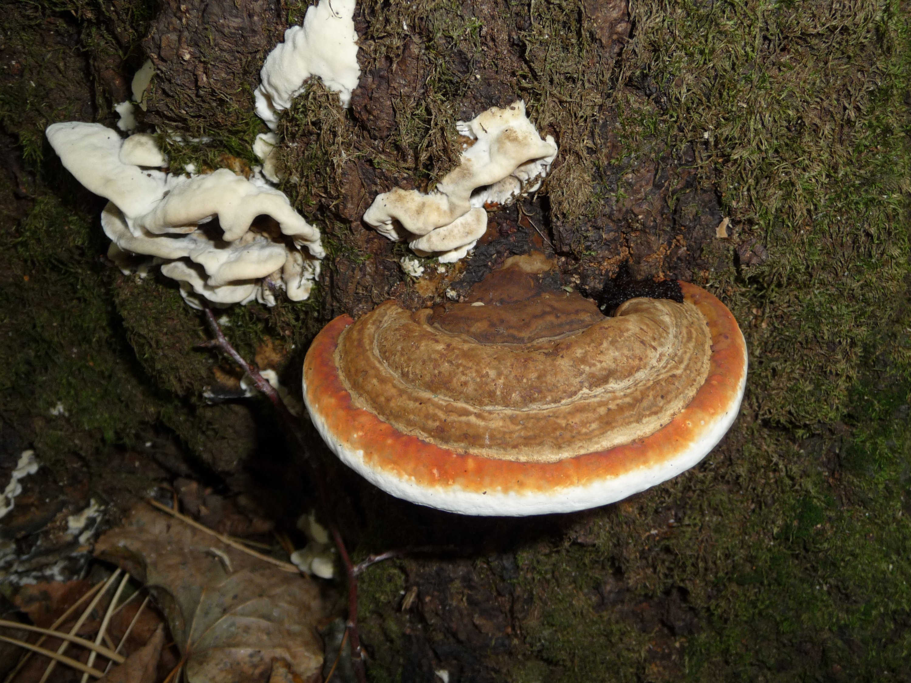 Red Banded Polypore (Fomitopsis pinicola) on a dead oak. The new part of the fruiting body is orange. Very young fungi also is present (white). Forest reserve (wildlife reserve) near Vinnitsa, Ukraine.